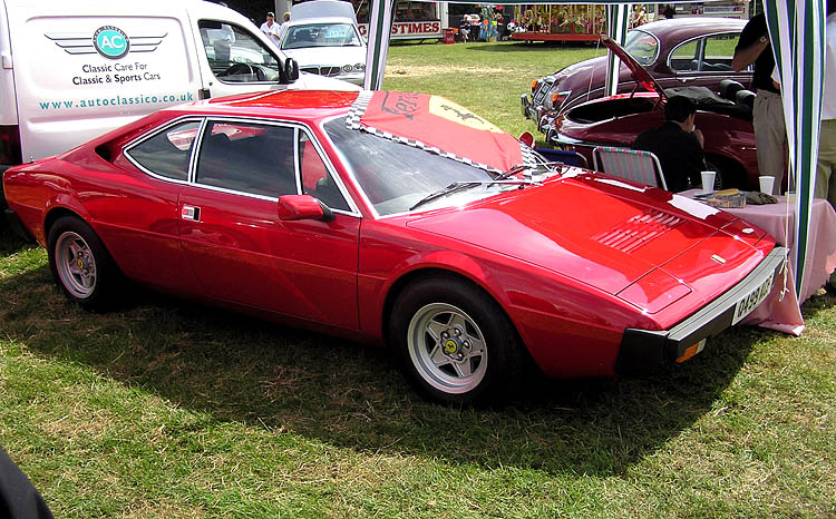 Bertone-bodied Ferrari Dino 308 GT4 a car show in Bristol, England. The year of manufacture is not known.